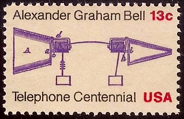 Telephone_Centennial_Issue_1976-13c.jpg